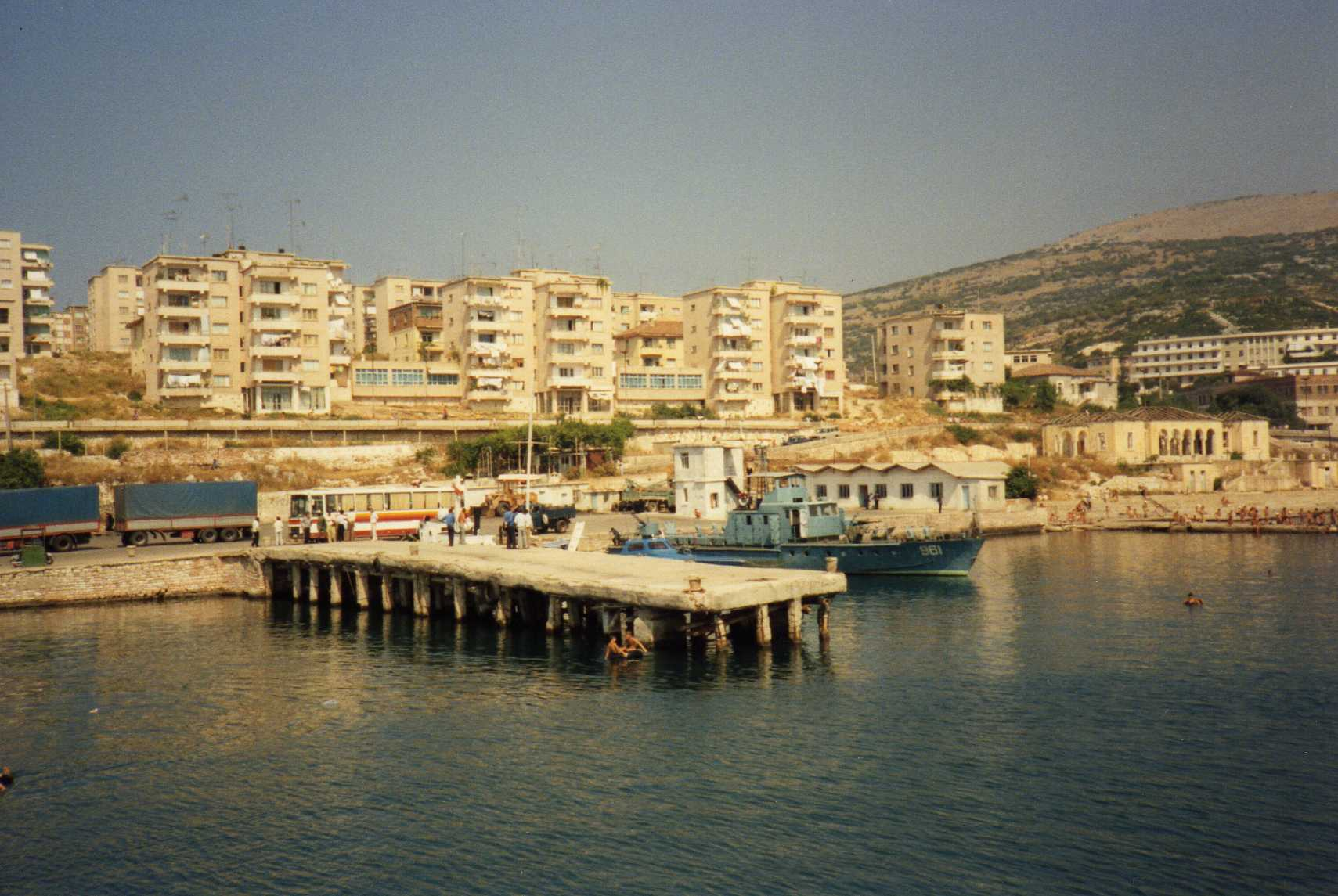 The quay was the immigration point - the chief officer spotted my American passport as we stood in line to be stamped in - he pulled me aside and gave me a formal welcome, as the first American to have arrived in the port of Sarande since the doors opened!